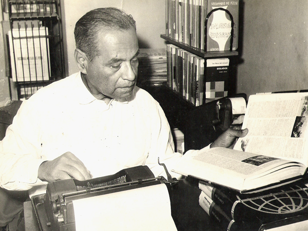 Arturo D Hernandez en su máquina de escribir. Foto en blanco y negro.